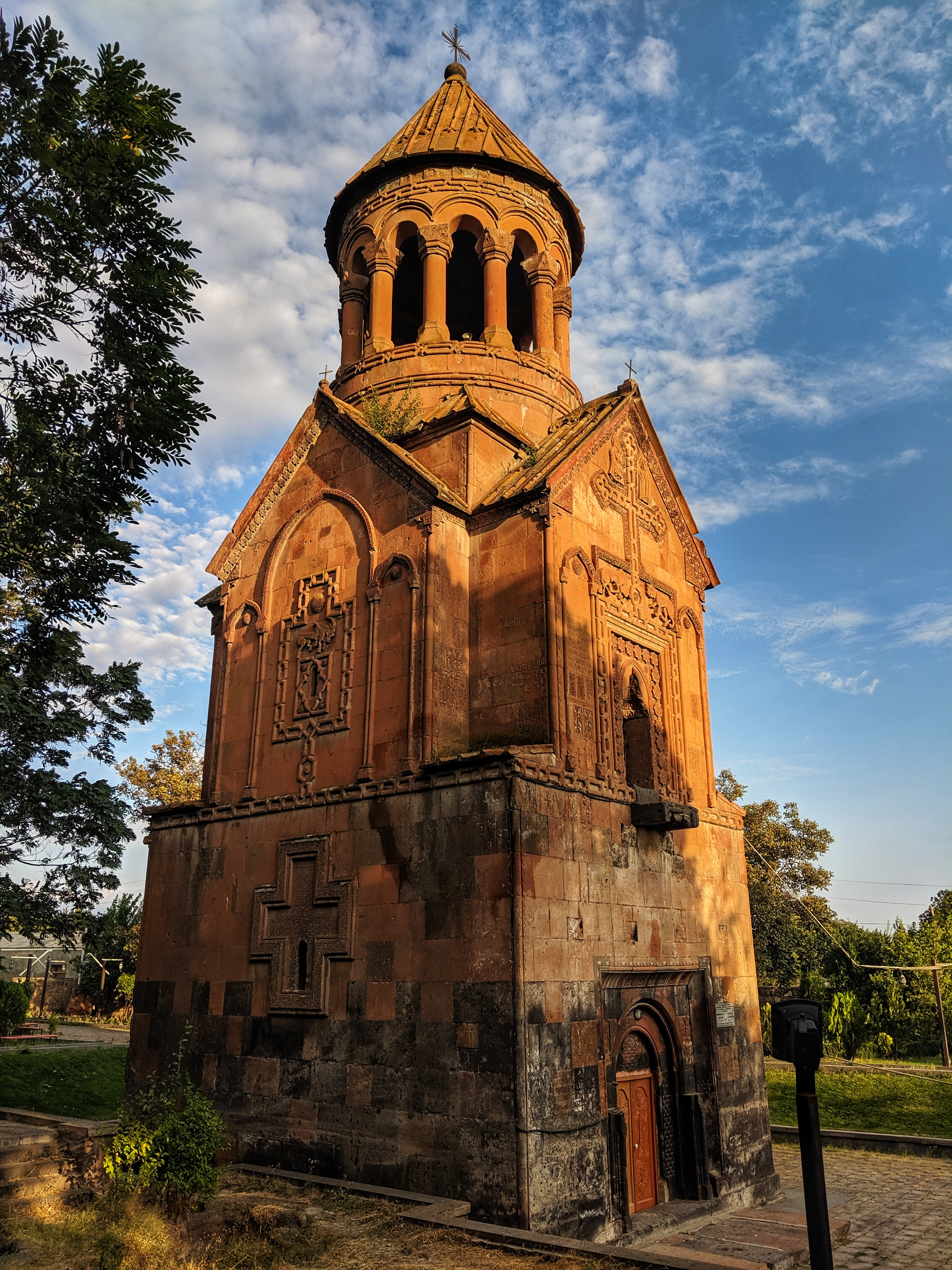 Saint Holy Mother church of Yeghvard, 31 August 2019 4/7